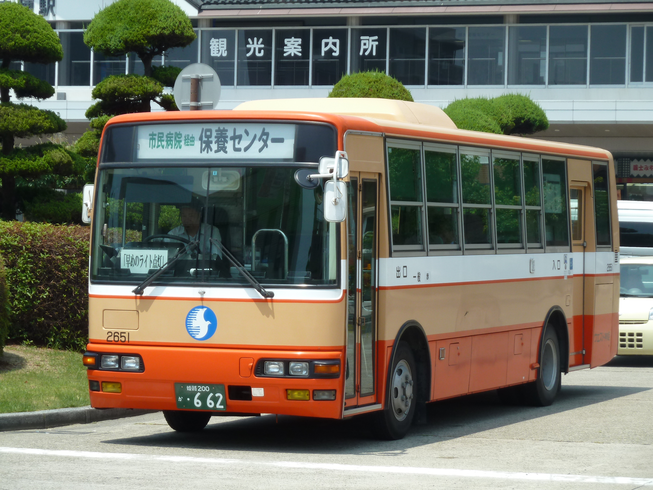 West-ShinkiBus in Hyogo, Japan.